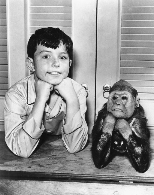 Photo of Jerry Mathers as Beaver Cleaver and his monkey, Stanley, from the television program Leave It to Beaver.